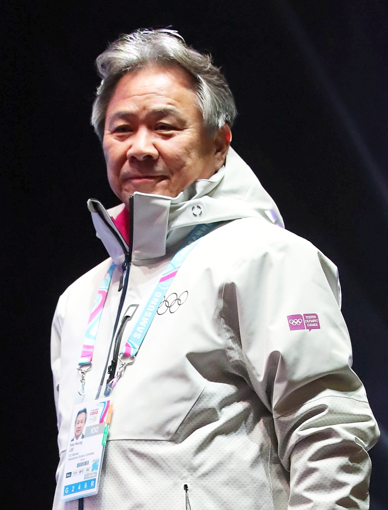 Medal ceremony of Figure skating – Ice dance at the 2020 Winter Youth Olympics in Lausanne on 13 January 2020.